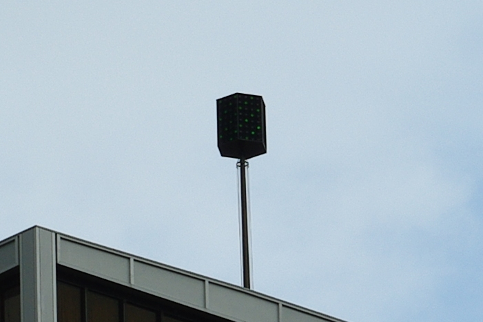 Weather beacon atop Standard Plaza in Portland, Oregon.